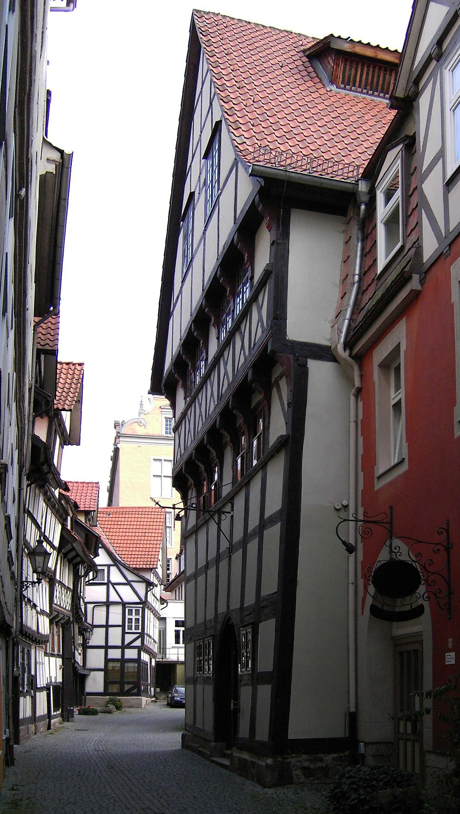 Hann. Münden, Sydekumstr. 8, Haus Ochsenkopf, Germany. Timber framed house and related ornaments.